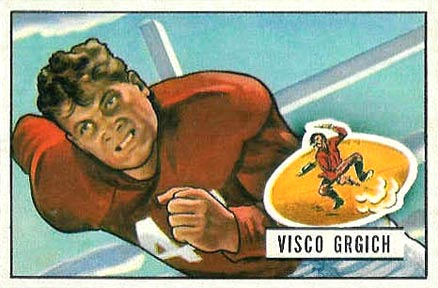 American football player Visco Grgich on a 1951 Bowman card.